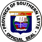 Provincial seal of Southern Leyte, Philippines.